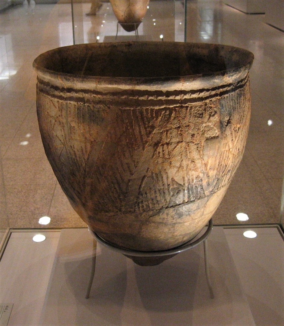 Korean neolithic pot, found in Busan. Taken from the National Museum of Korea. (Zoom Version)